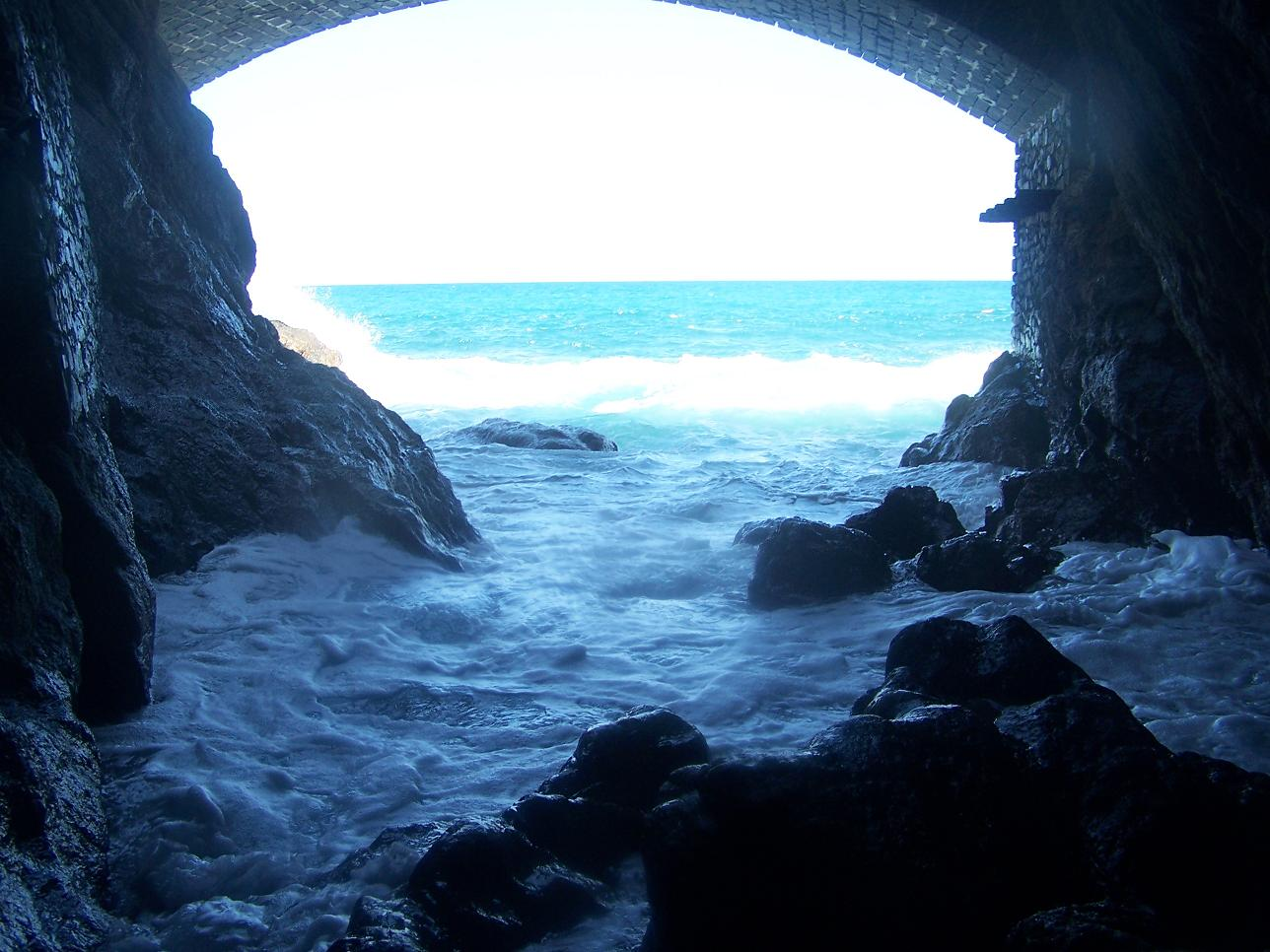 Sea cave in Skikda (Algeria).